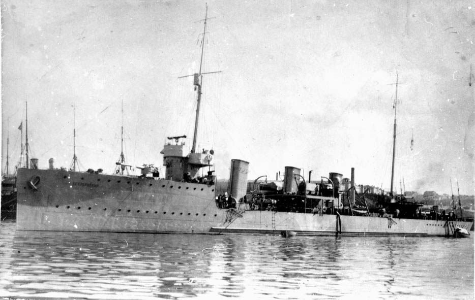 Imperial Russian Derzkiy class destroyer Bespokoynyi in Sevastopol'.